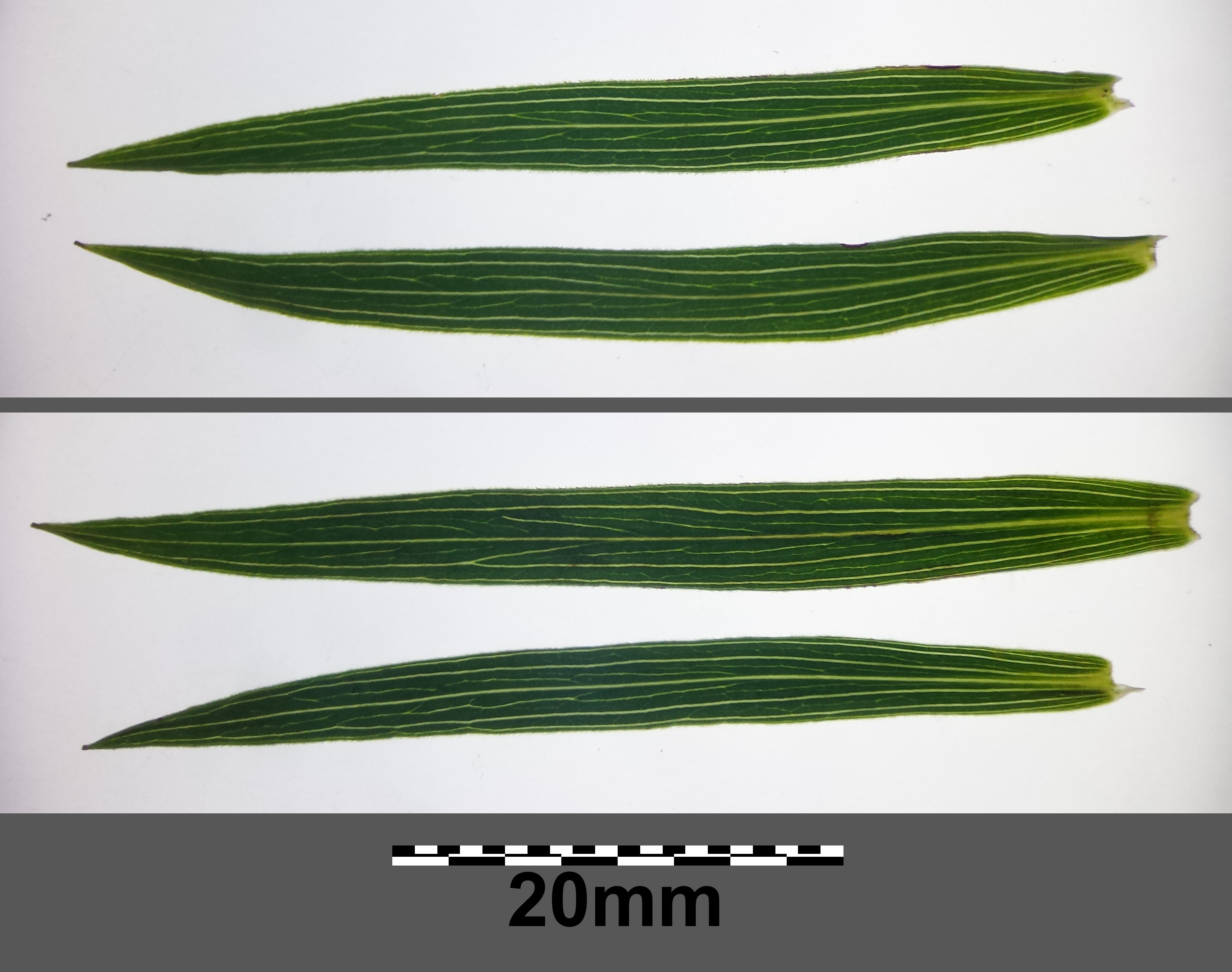 Leaves (with background lighting) Taxonym: Inula ensifolia ss Fischer et al. EfÖLS 2008 ISBN 978-3-85474-187-9 Location: semi-dry grasslands and wine yards to the north of Oberthern, municipality Heldenberg, district Hollabrunn, Lower Austria - ca. 300 m ü. A. Habitat: semi-dry grassland